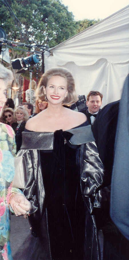 Donna Dixon on the red carpet at the 62nd Annual Academy Awards.